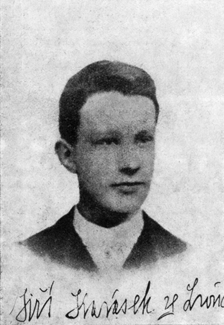 Jiří Karásek ze Lvovic 20 years old.